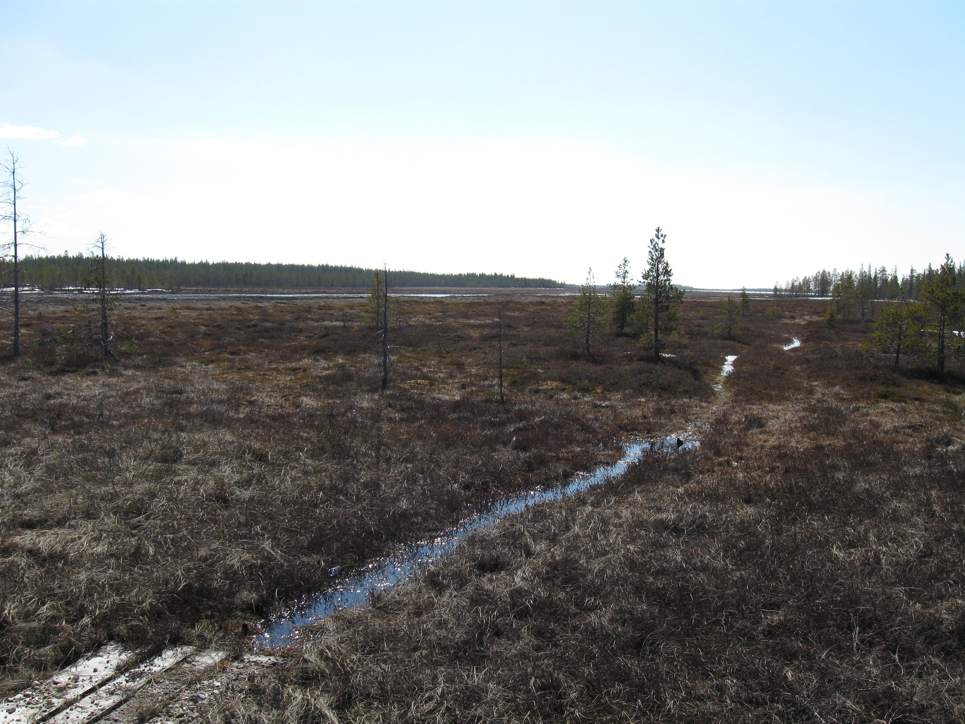 A sight to the Martimoaapa open bog in Tervola, Finland, at Hangassalmenaho towards the Martimojärvi lake in the South-West from the road 923.